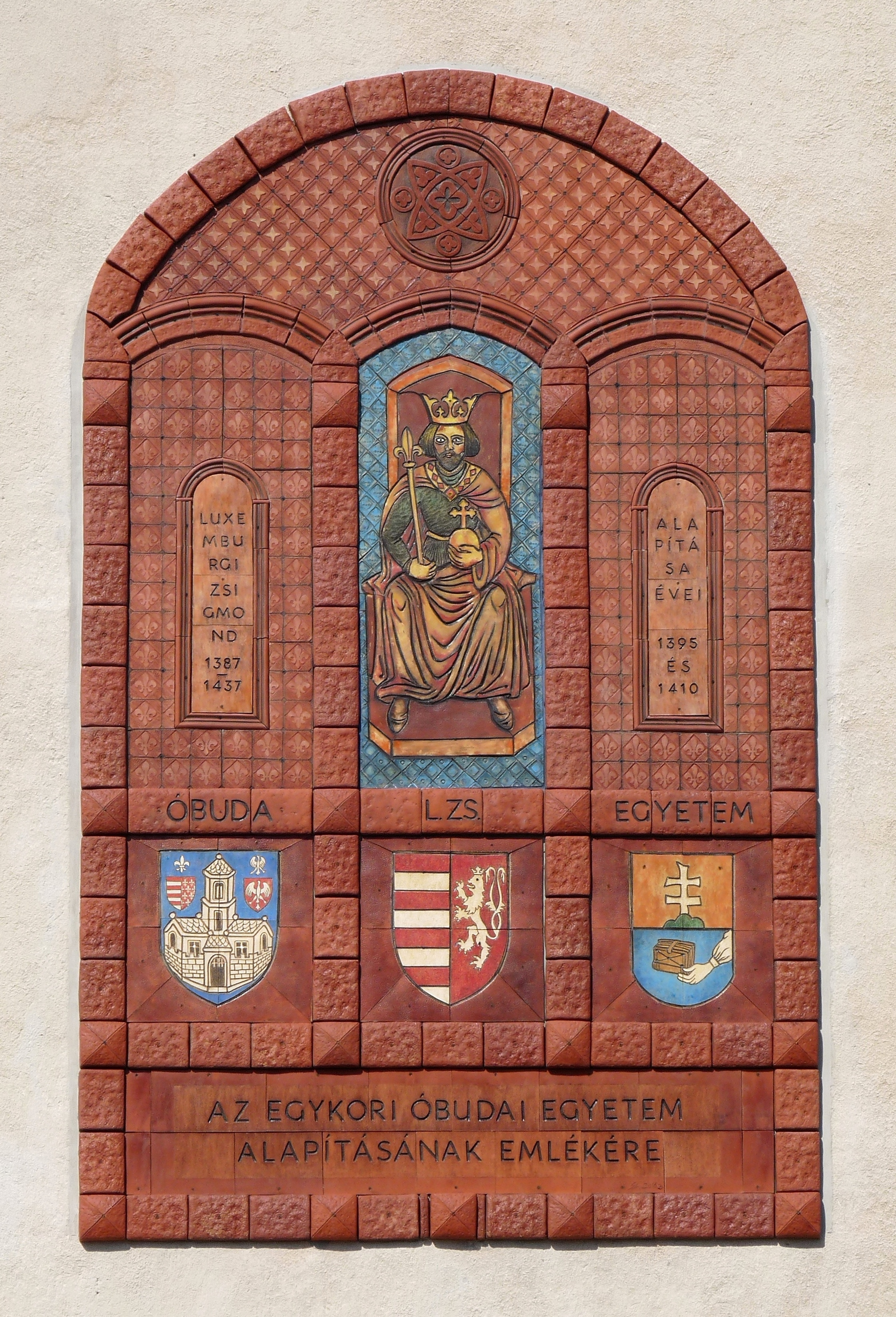 Commemorative plaque for the first university of the Hungarian capital and its founder, the Hungarian king Sigismund of Luxembourg (1368–1437) affixed to the front of the Óbuda High School built on the ground where was once college. The ceramic bas-relief 5m high x 4m wide made by Mrs. Anna Schéffer was inaugurated on 25 April, 2017. (Budapest, District III. Szentlélek Square Nr 10)